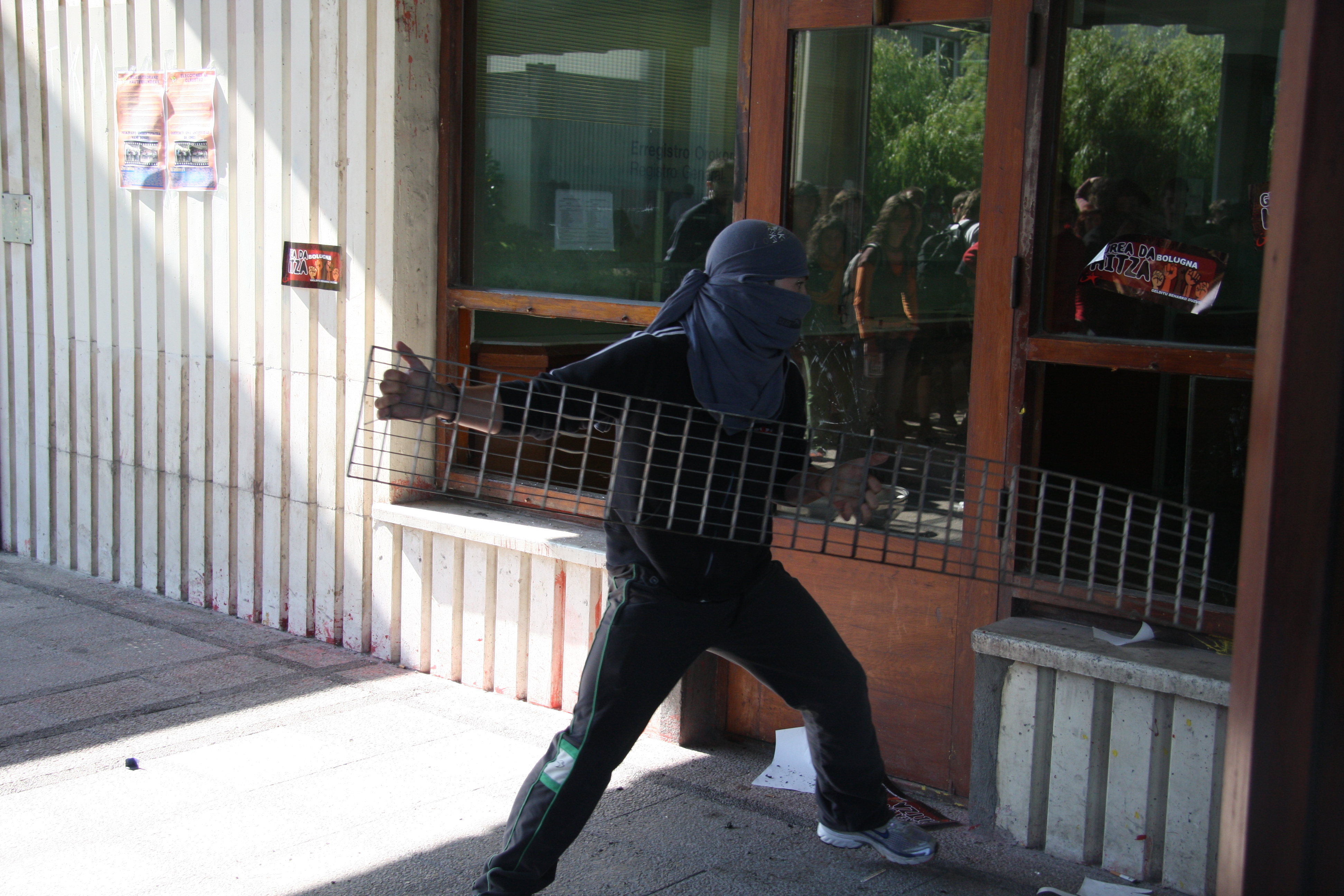 Riots in Campus of Leioa, 2008.